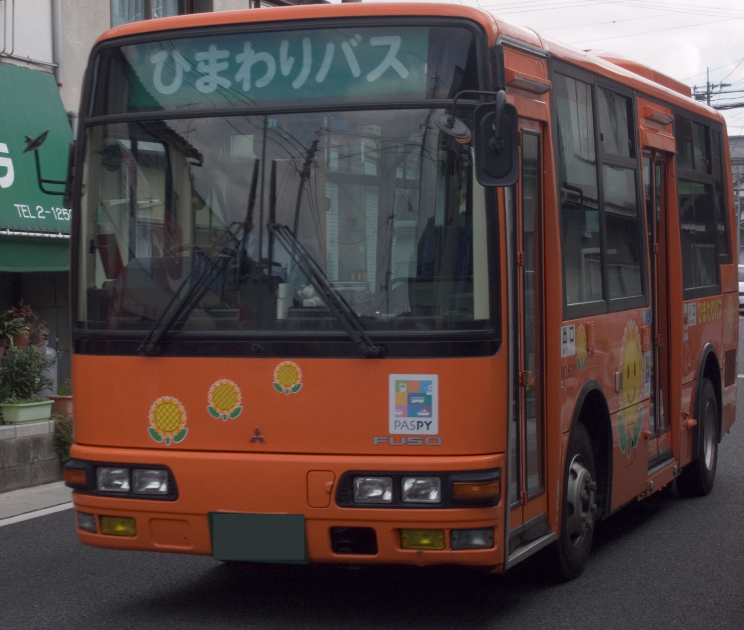 Sunflower bus, Shobara, Hiroshima, Japan